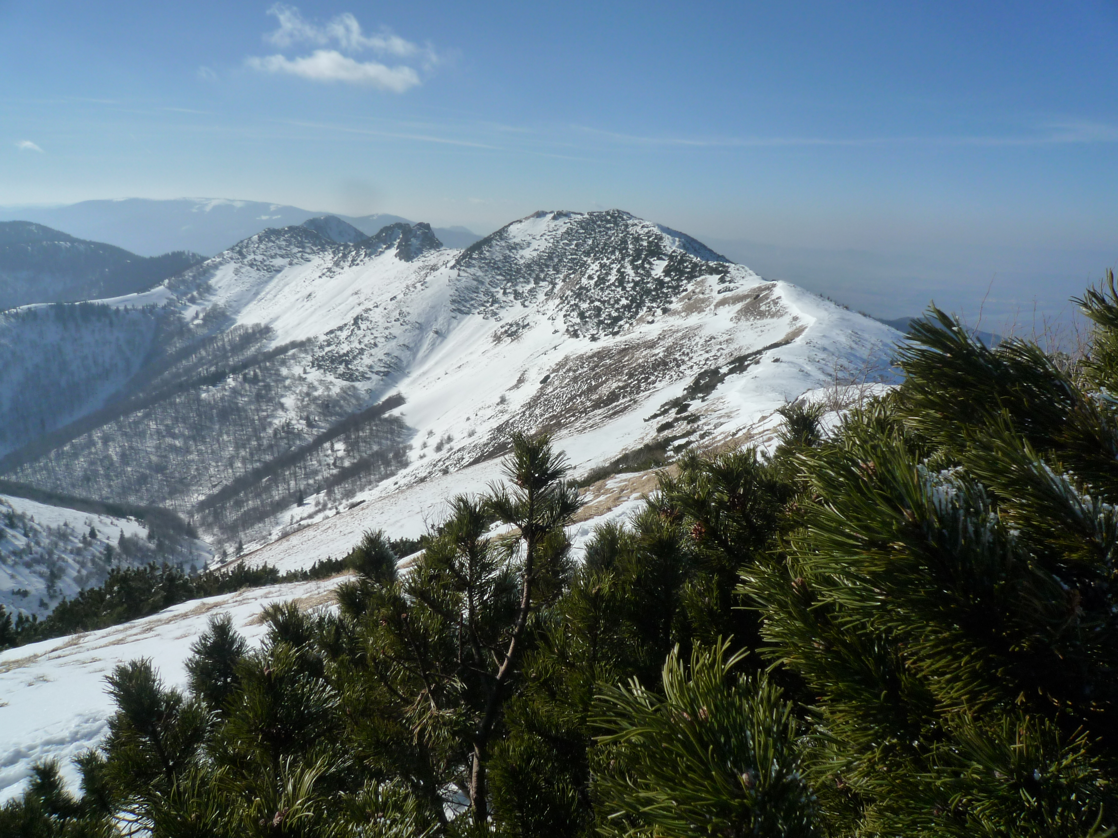 Mountain ridge — Malá Fatra National Park, Žilina Region, northern Slovakia.